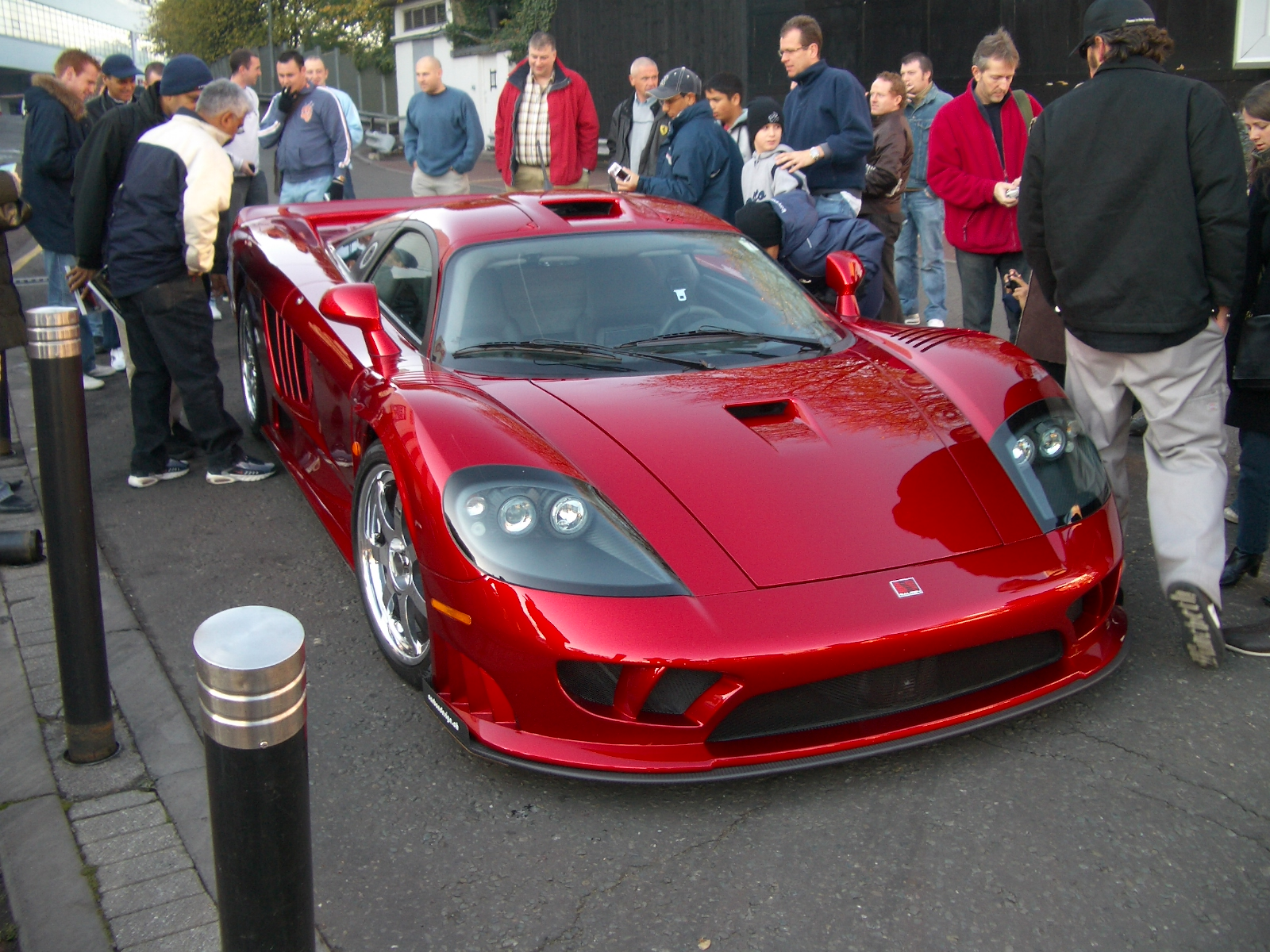 An S7 Twin Turbo from here